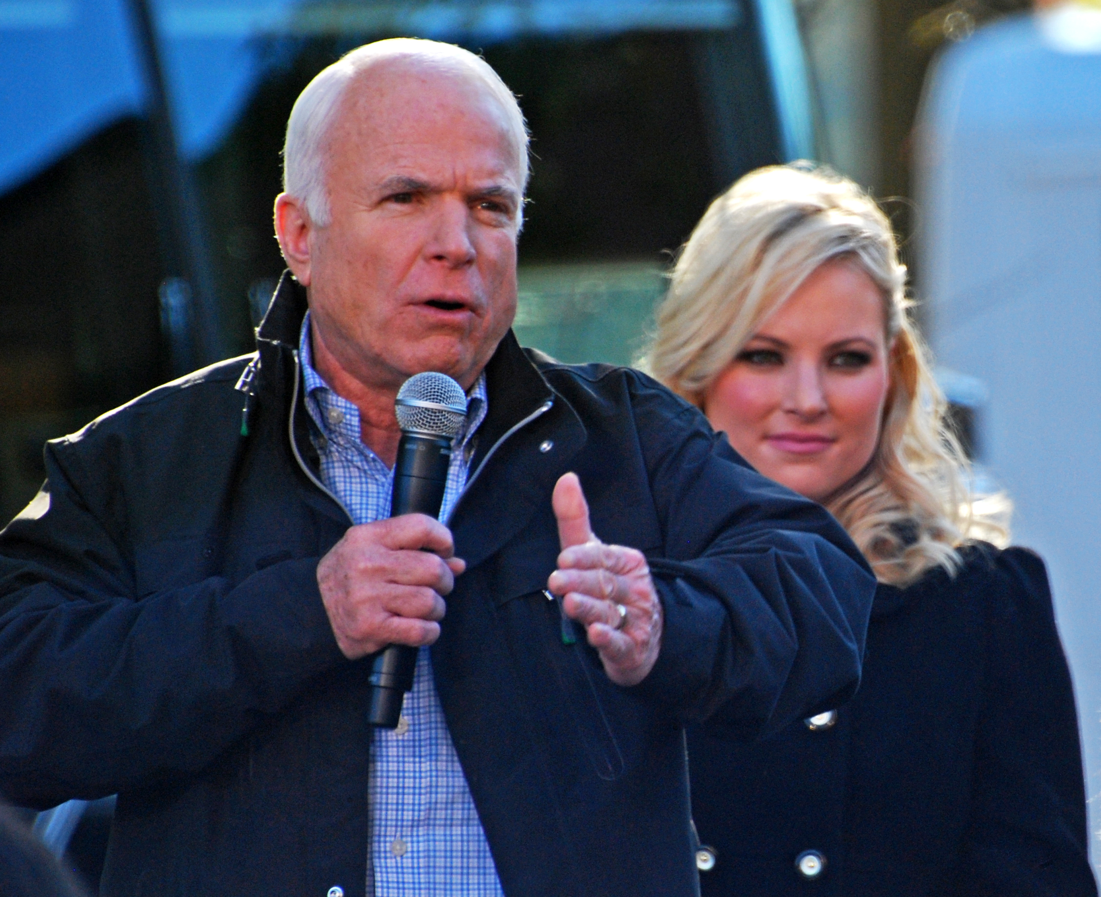 John McCain in Elyria 2008-Oct-29